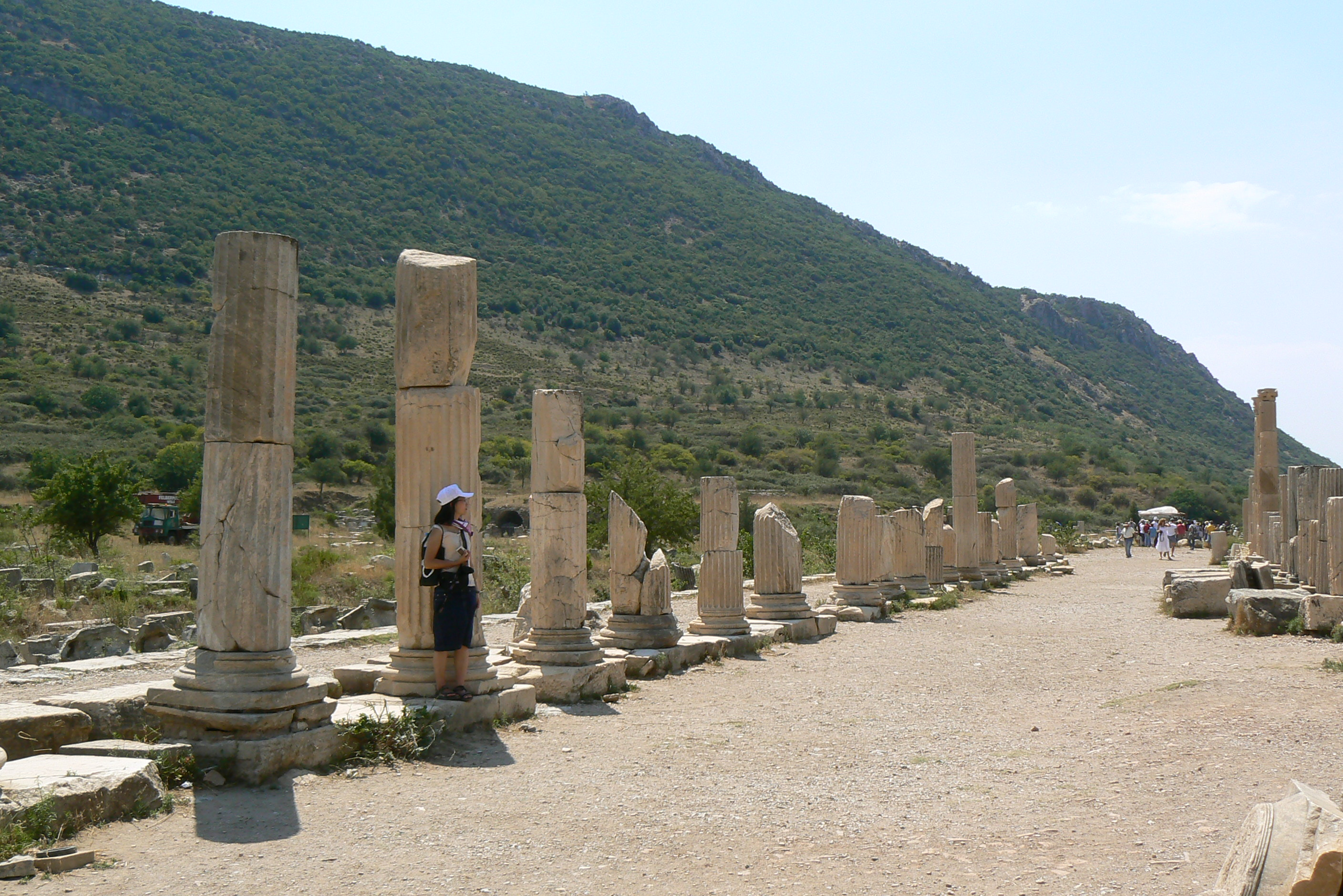 Ephesus, Basilica